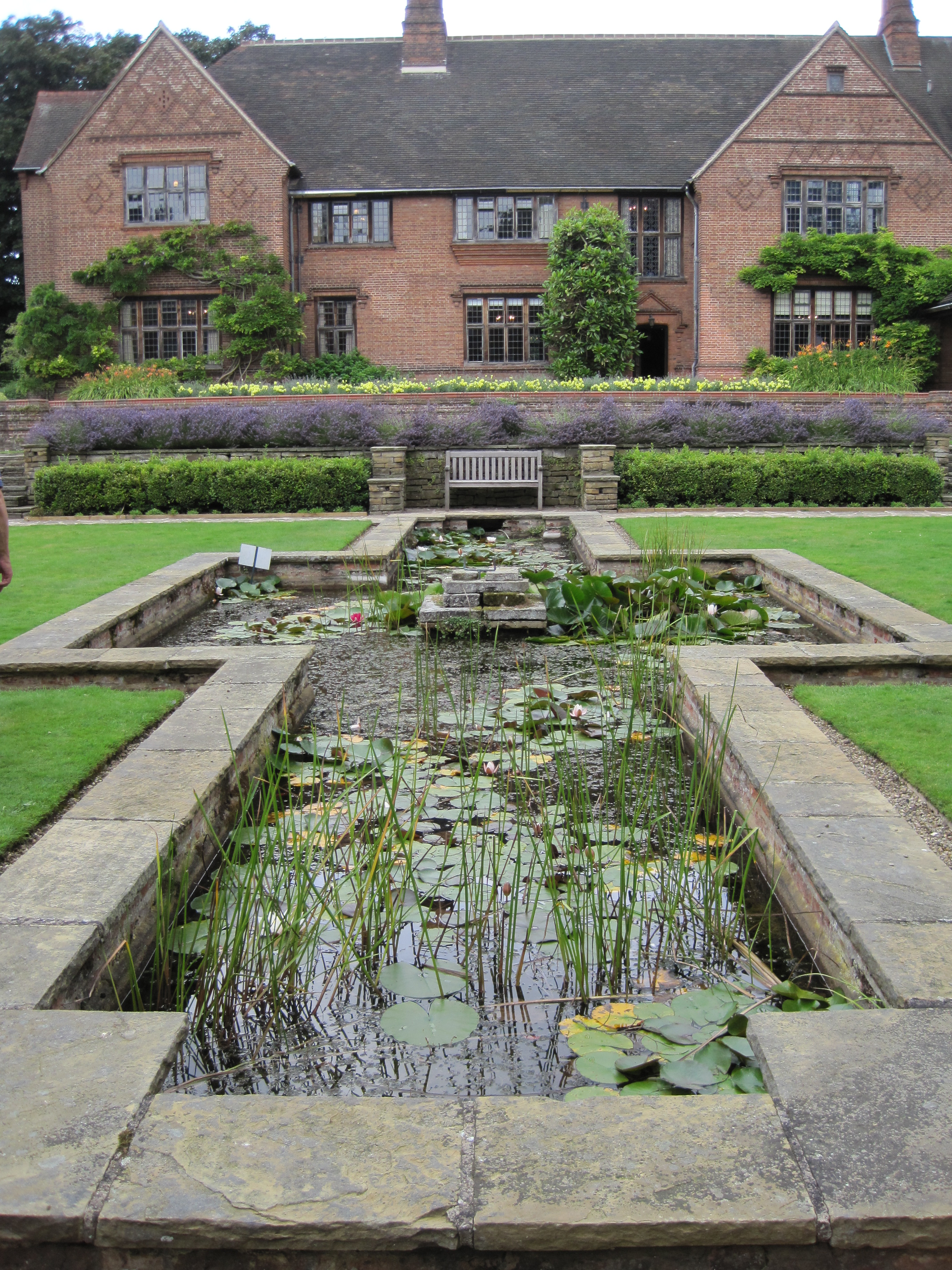 Goddards